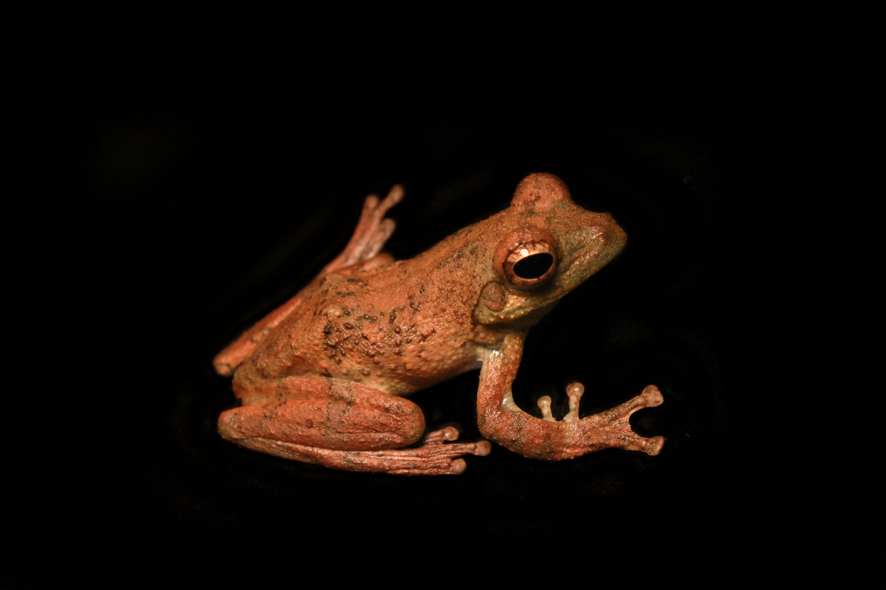 Chiromantis rufescens. Libreville, Gabon.